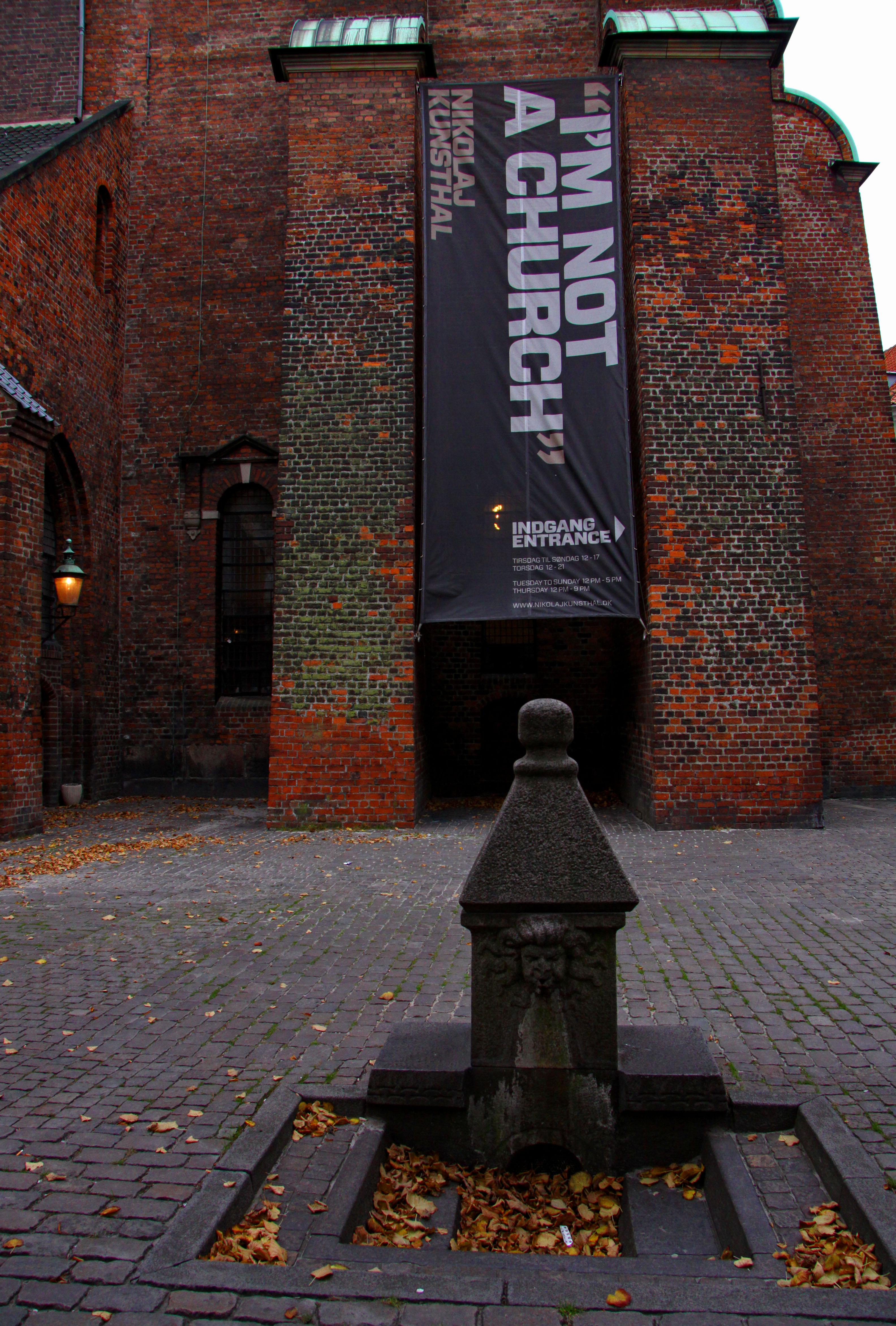 Granite fountain at St Nicolas' Church in Copenhagen, Denmark